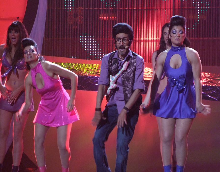 Rodolfo Chikilicuatre (Spain) performing Baila el Chiki-chiki, Eurovision Song Contest 2008 in Belgrade, Serbia, May 24, 2008